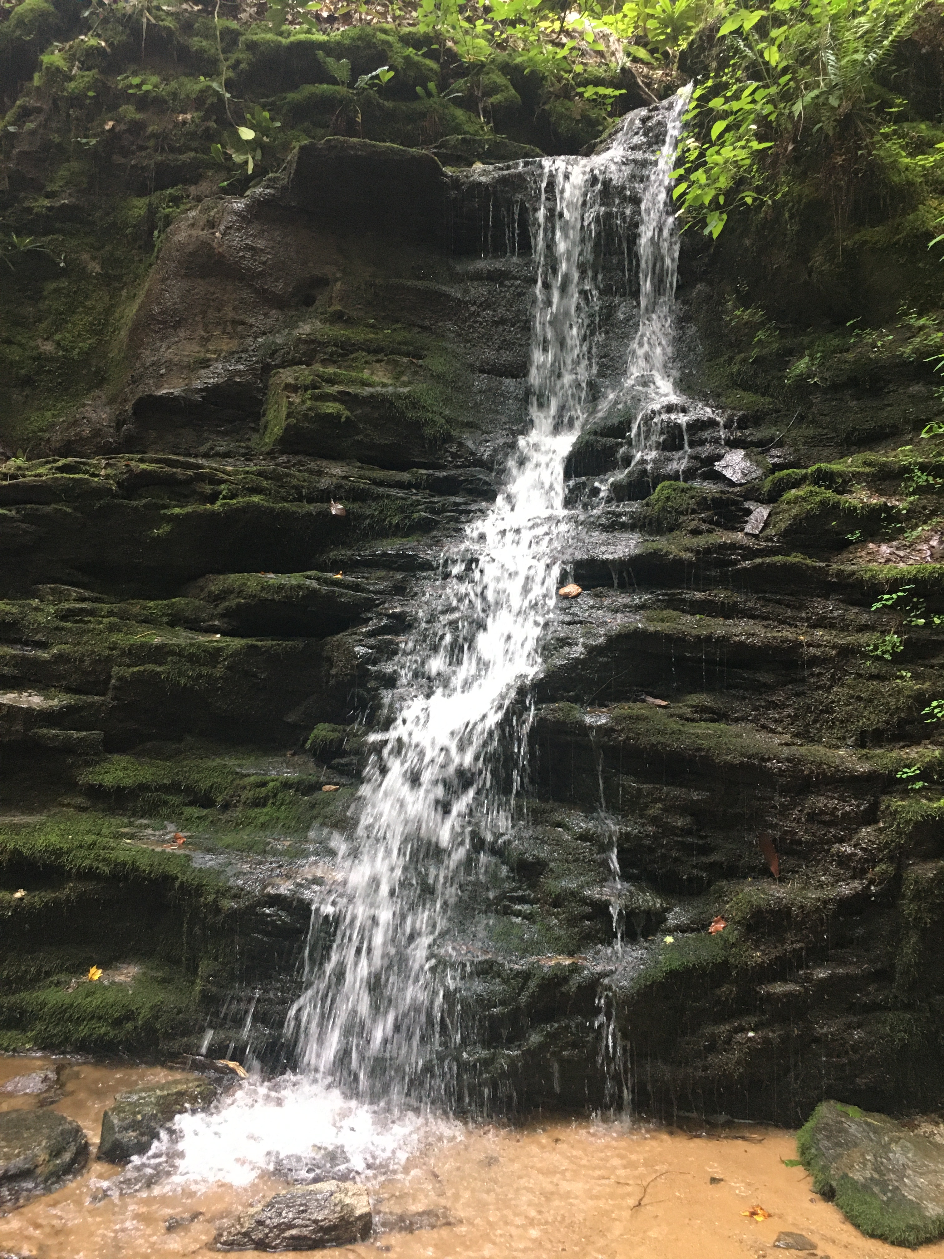 The waterfall in Warwoman Dell, Chattahoochee-Oconee National Forest, Georgia in June 2020